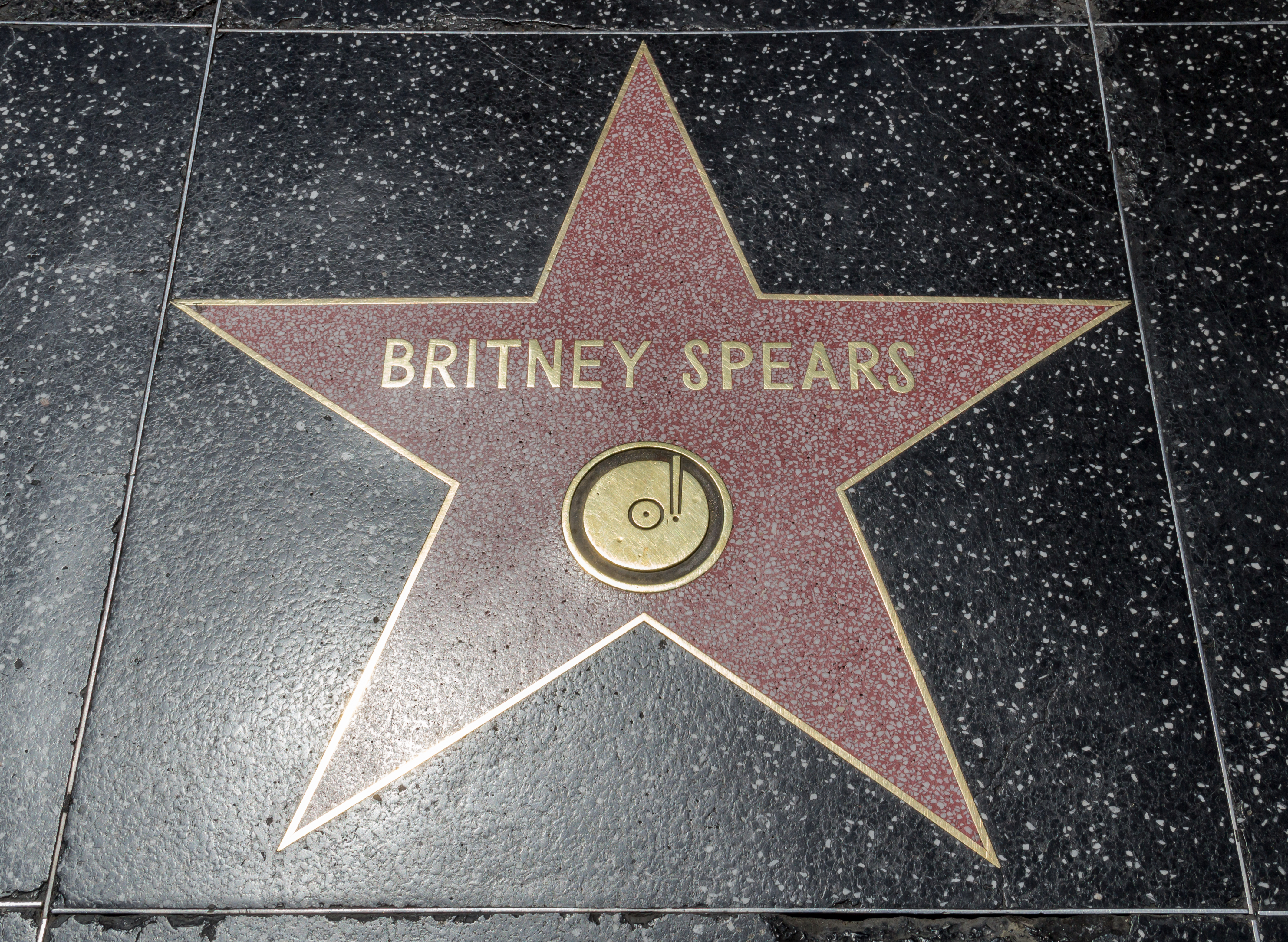 Star “Britney Spears” at the Hollywood Boulevard in Los Angeles, California, USA